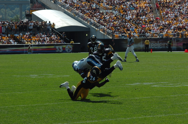 Deshea Townsend of the Pittsburgh Steelers makes a tackle.